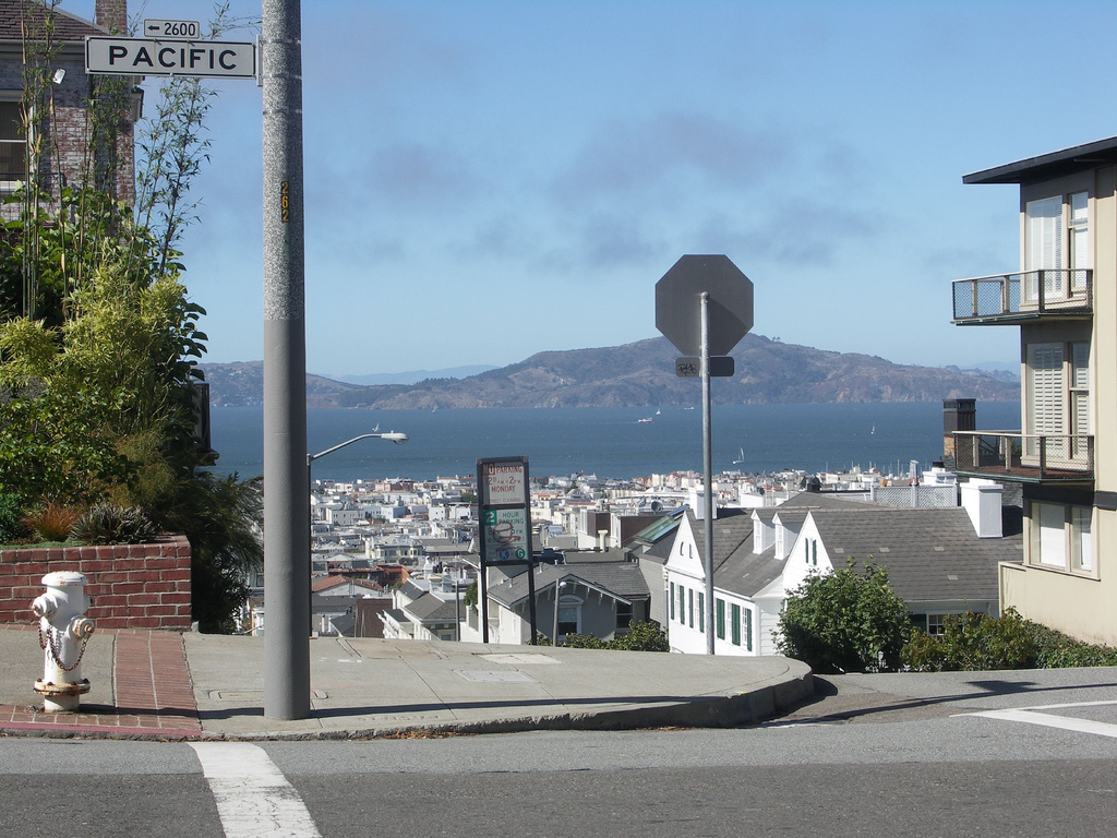 Pacific Heights, San Francisco, USA